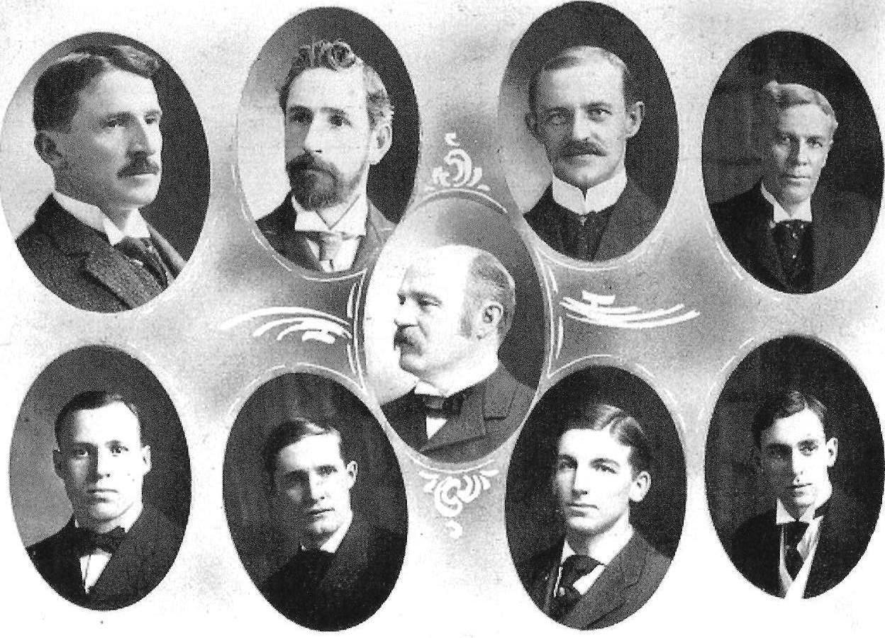 Photograph of University of Michigan Athletic Board of Control, 1905-06